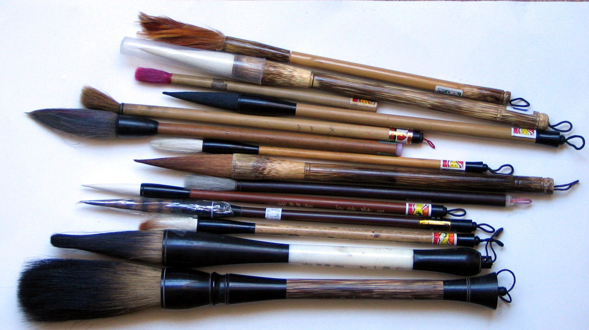 Chinese pencils, the upper one has got chicken feathers, the pink one is due to stamp red ink usage